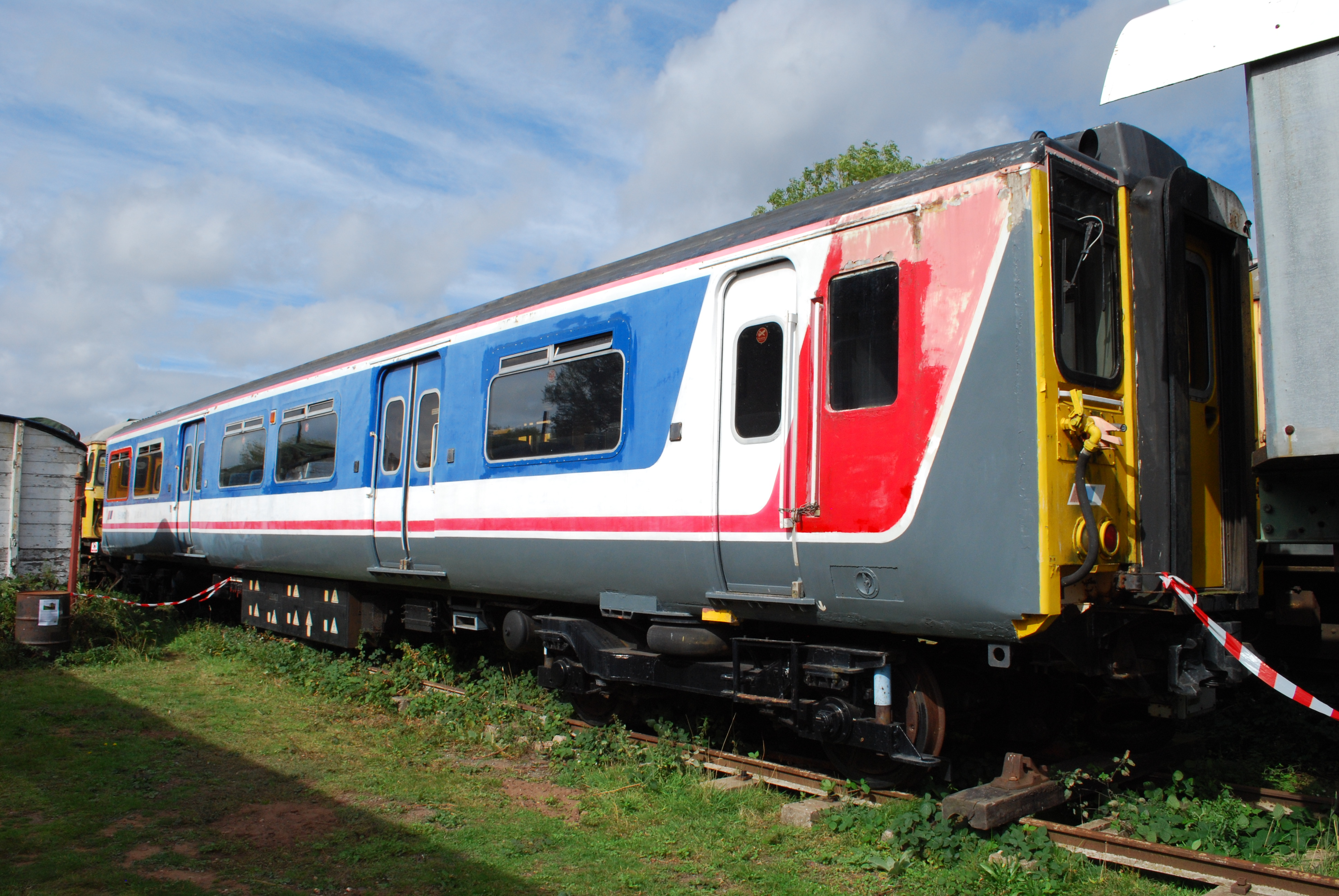 B.R. (York) Class 457 750 v dc 3rd rail/25k v ac overhead Standard Mk.III 3-car inner suburban e.m.u. prototype in Network South East livery at the Electric Railway Museum, Coventry, 9/11.